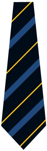 Blue Coat School Prefect Tie